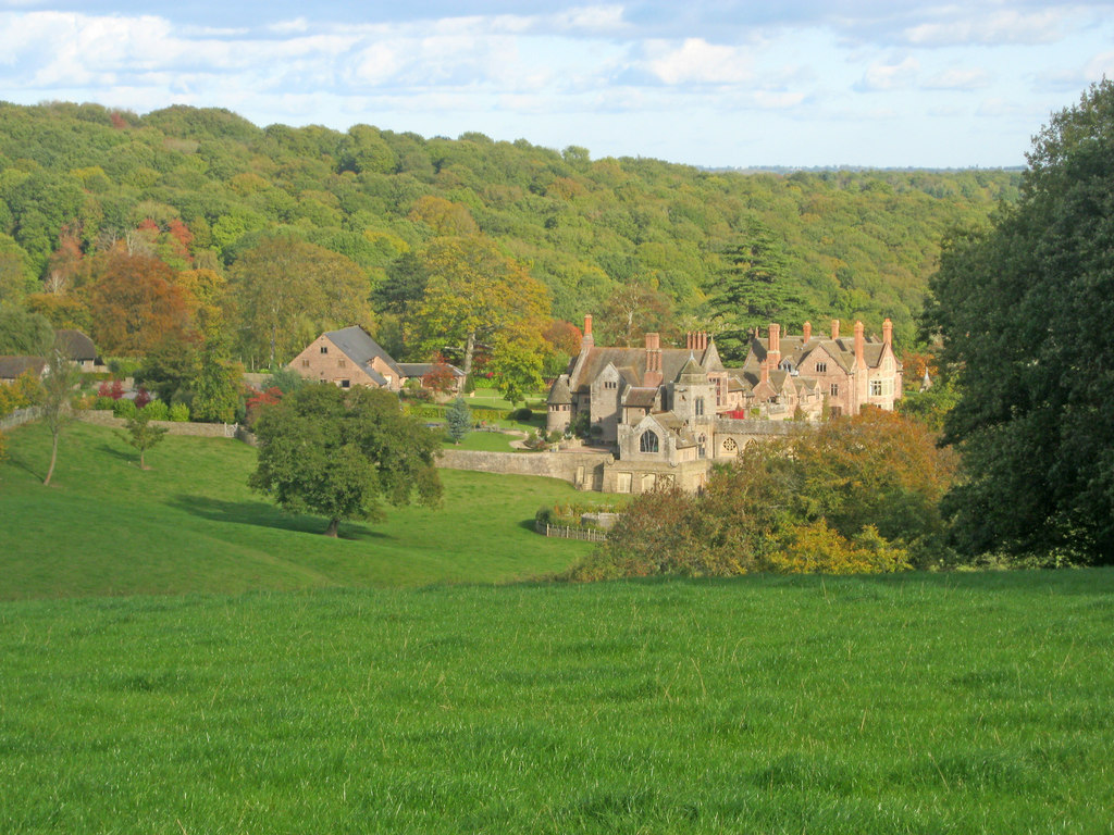 Dinmore Valley, near to Westhope, Herefordshire, Great Britain.